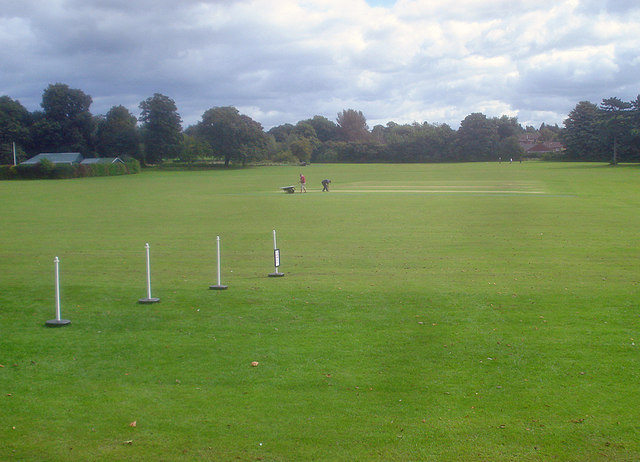 Preparing the cricket pitch Cricket matches have been played at the Bath Grounds since the 1880s and this was a Leicester county cricket ground until 1964. Bowls club on the left behind the hedge.